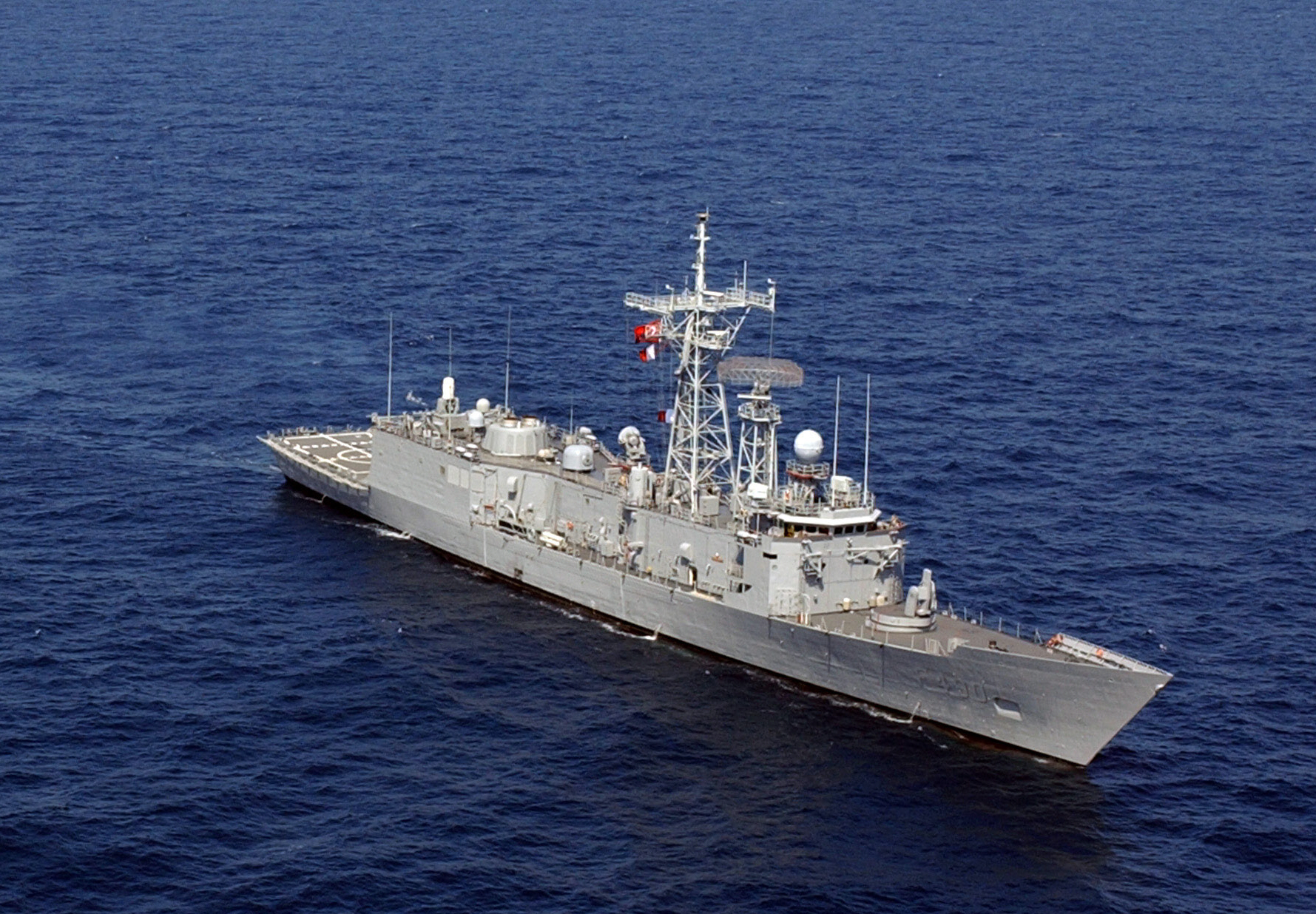 Turkish G Class frigate TCG Gazi’antep (F 490) conduct operations in support of Phoenix Express 2007. The two-week exercise, designed to strengthen regional partnerships, is focused on increased maritime domain awareness, better information sharing practices and the ability to operate jointly. Participants include Algeria, France, Greece, Italy, Malta, Morocco, Portugal, Spain, Tunisia, Turkey and the United States.